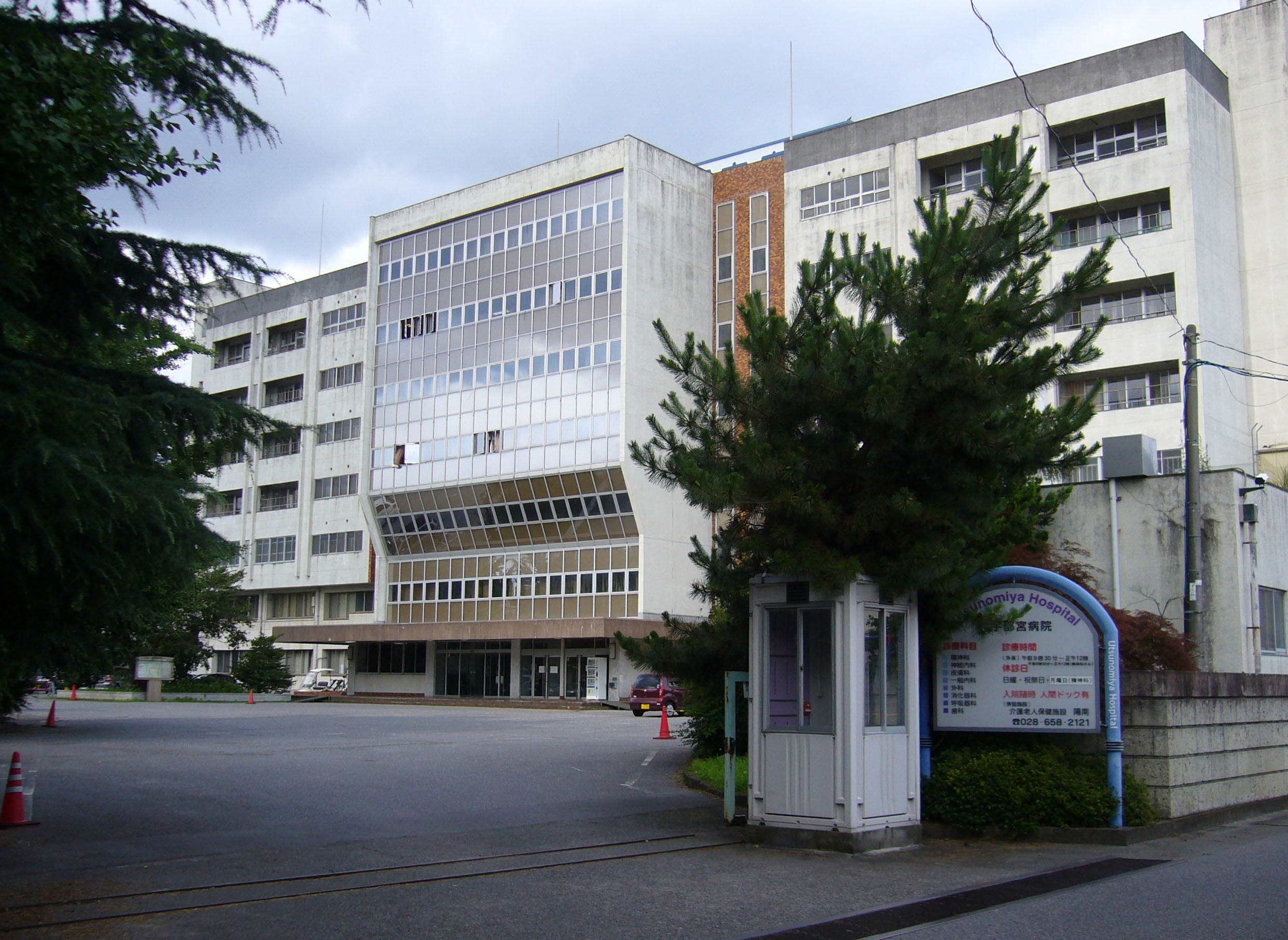 Hotoku-kai Utsunomiya Hospital (Japanese mental hospital)